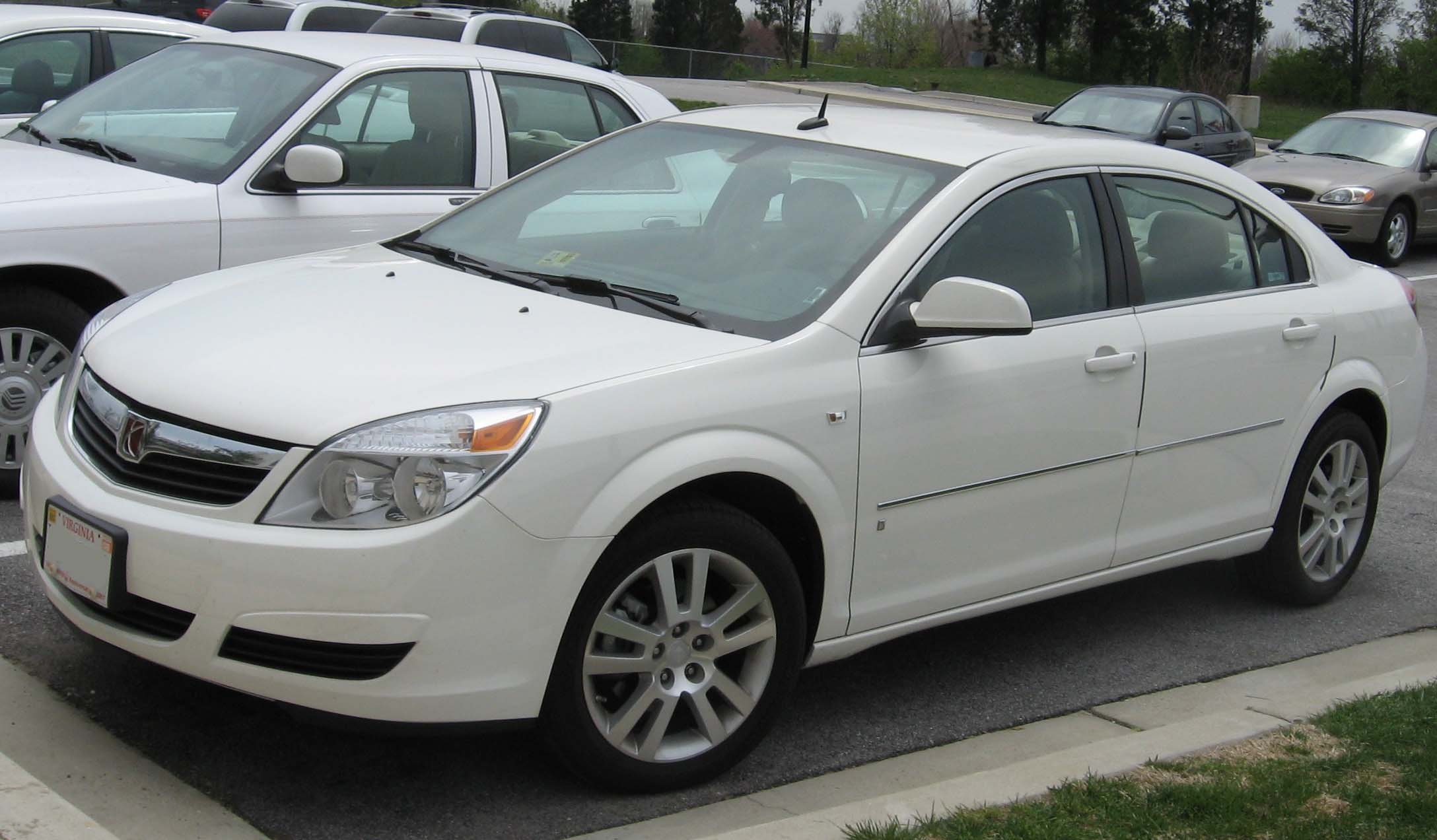 2007 Saturn Aura XE photographed in USA.